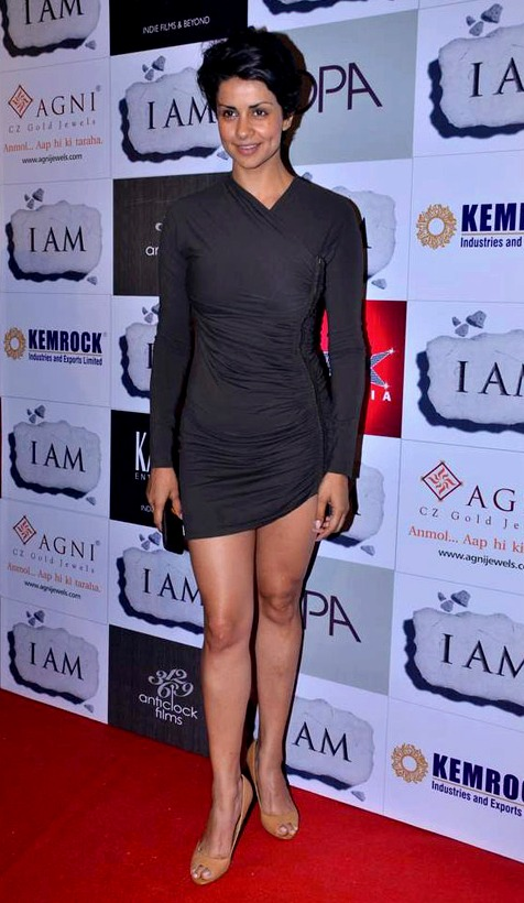 Gul Panag at 'I Am' National Award winning bash